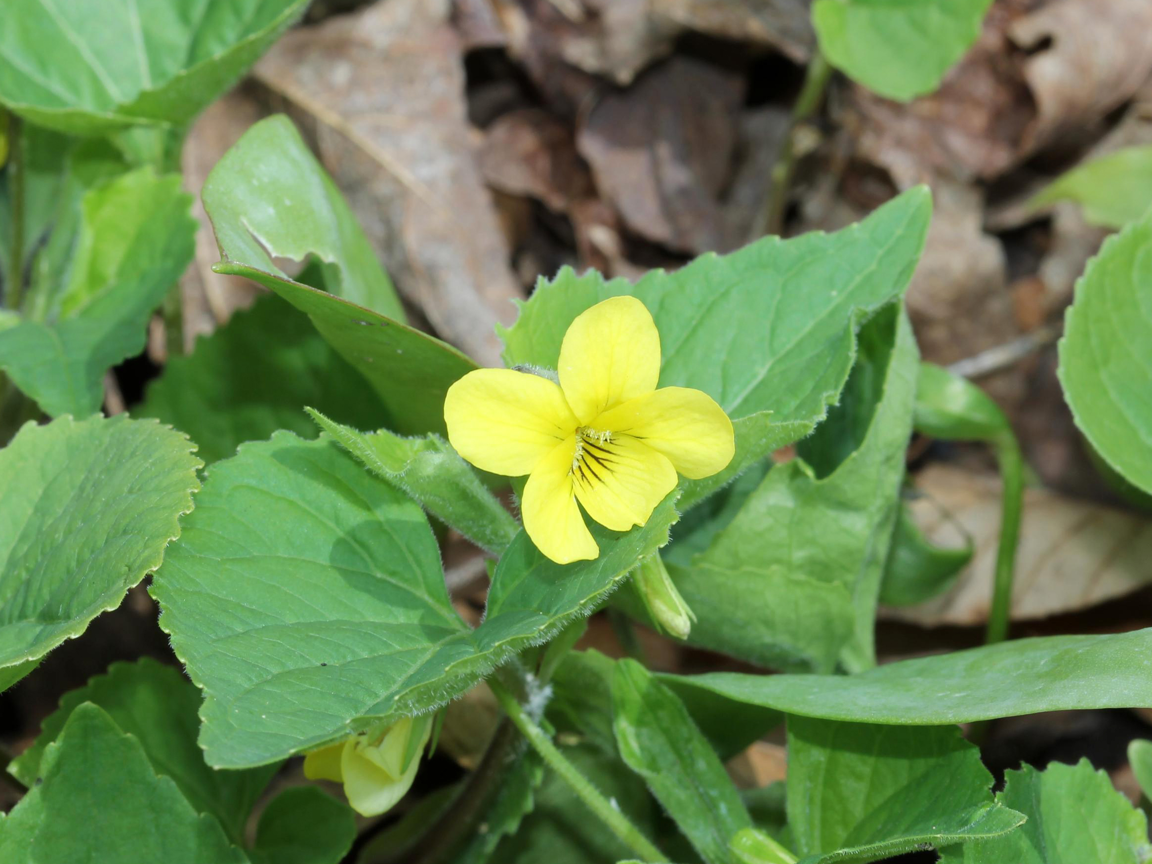 Viola pubescens - downy yellow violet - Otsego County, Michigan, USA, Michigan, United States